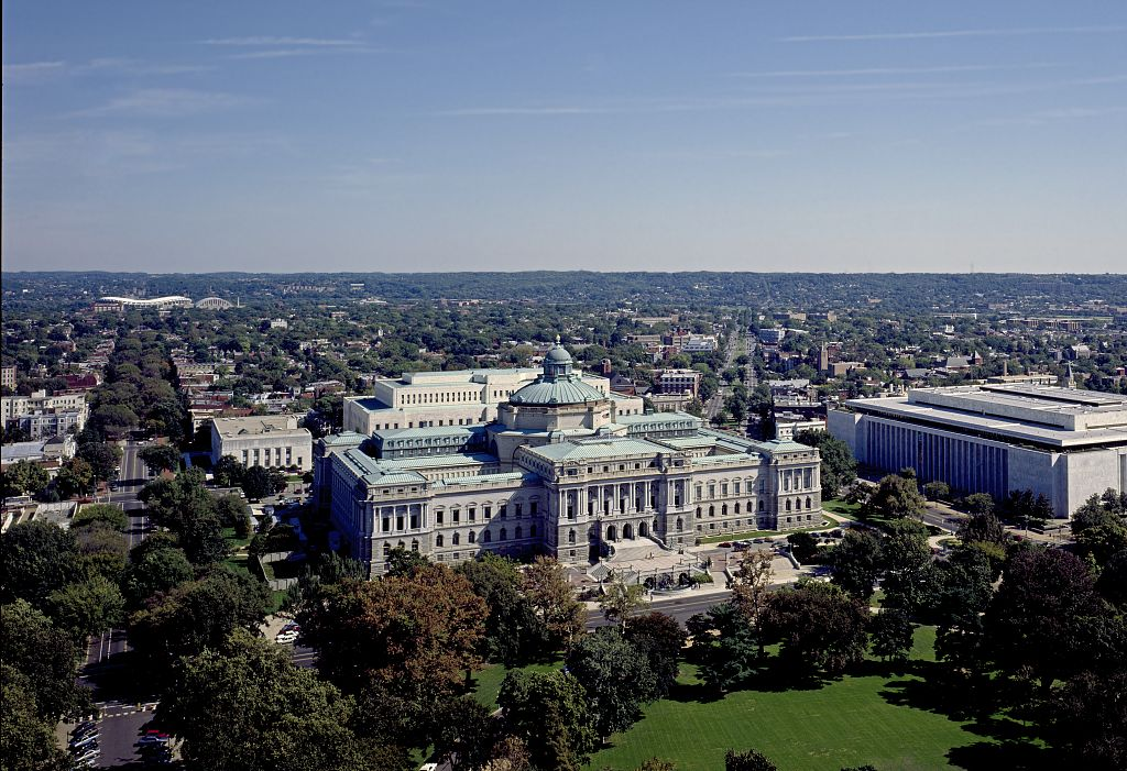 [Aerial view showing the Library of Congress Thomas Jefferson Building, with East Capitol Street on the left and the James Madison Building on the right, Washington, D.C.]